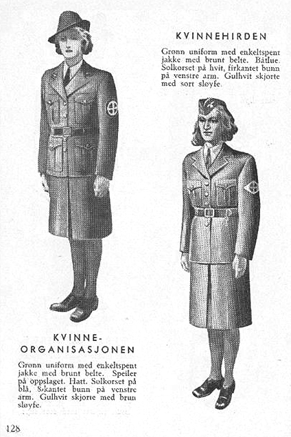 Uniforms and flags of the Nasjonal Samling (NS), Vidkun Qusiling's fascist party in Norway 1933–1945. Cropped images from a low-resolution PDF of NS årbok 1944 ( NS Yearbook 1944 ‘') published by "propaganda leadership" and printed in Gjøvik, Norway 1943: (NS was closed down in May 1945. No illustrator credited. In 2015 it’s 70 years after the release and the content of the book is believed to fall into the open by Norwegian copyright laws.)